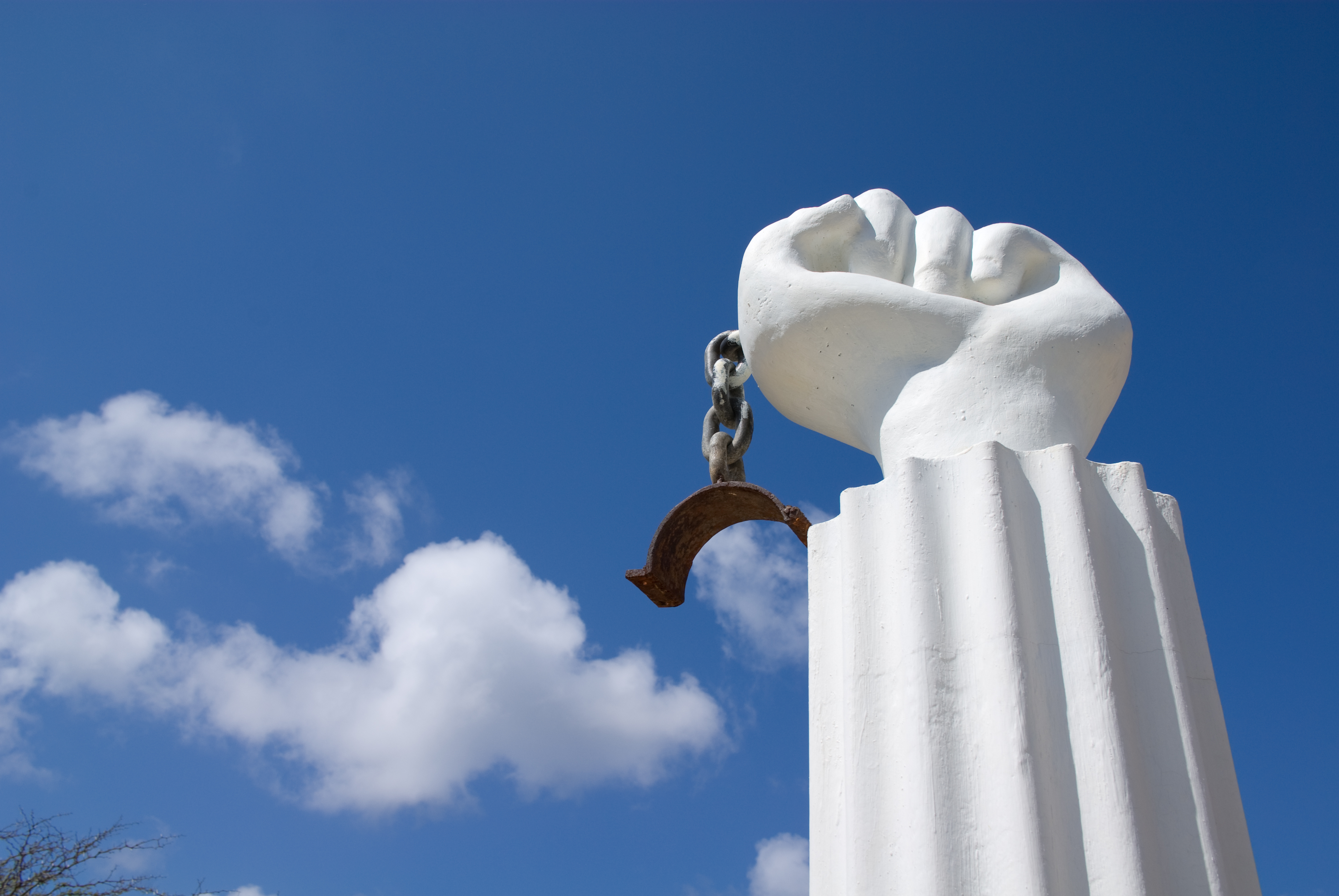 Statue commemorating the Curaçao Slave Revolt of 1795.